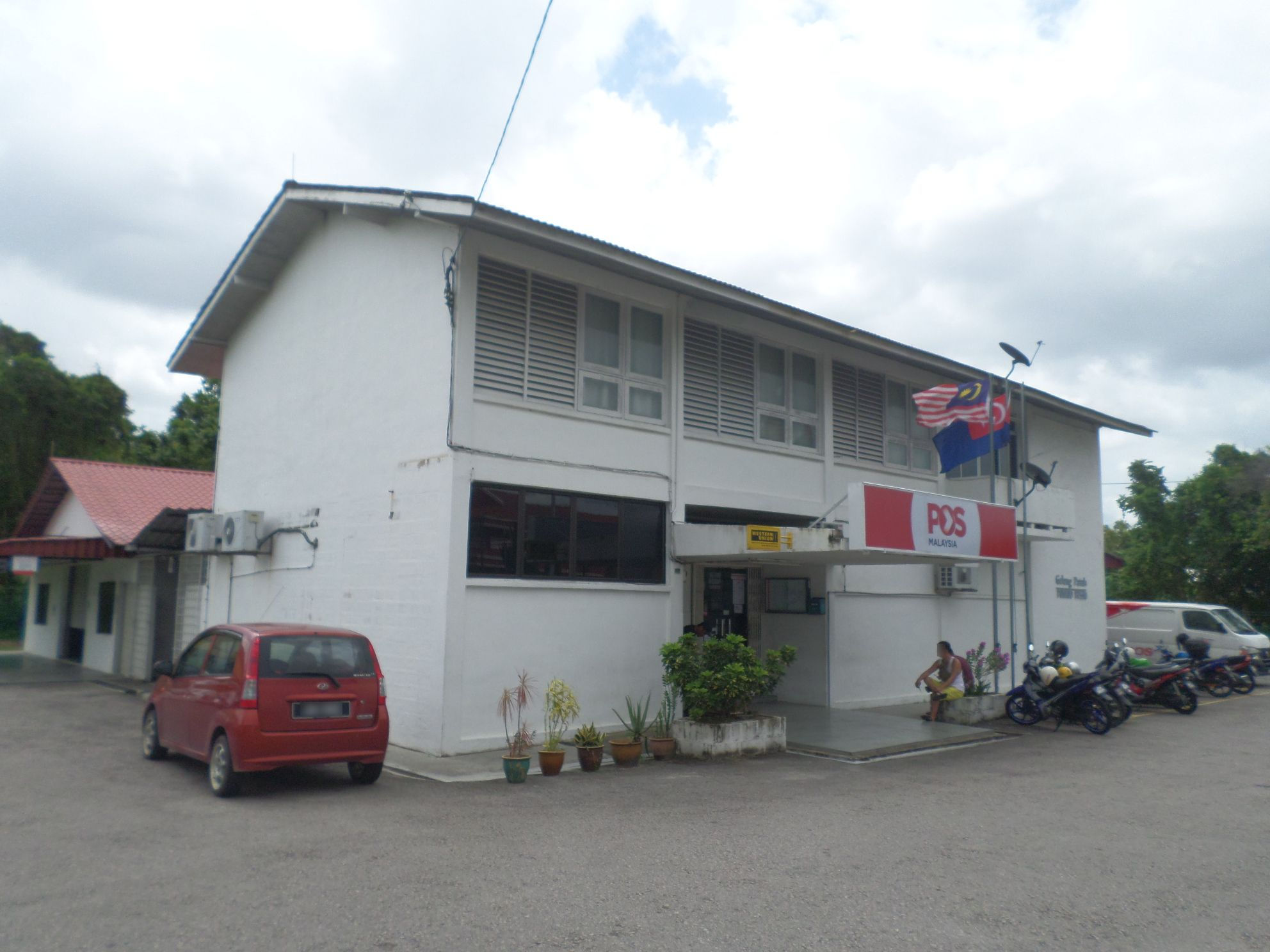 Gelang Patah Post Office, Gelang Patah, Iskandar Puteri, Johor, MalaysiaBahasa Melayu: Pejabat Pos Gelang Patah, Gelang Patah, Iskandar Puteri, Johor, Malaysia